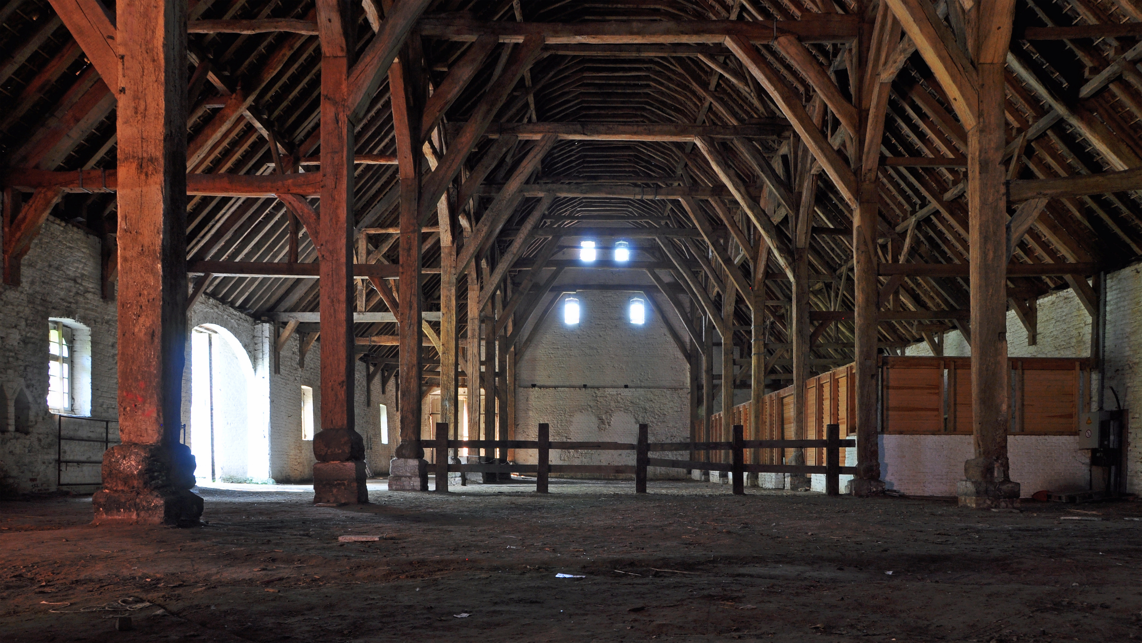 Lissewege (Bruges municipality, Belgium): inside the historic barn of the former Ter Doest Abbey